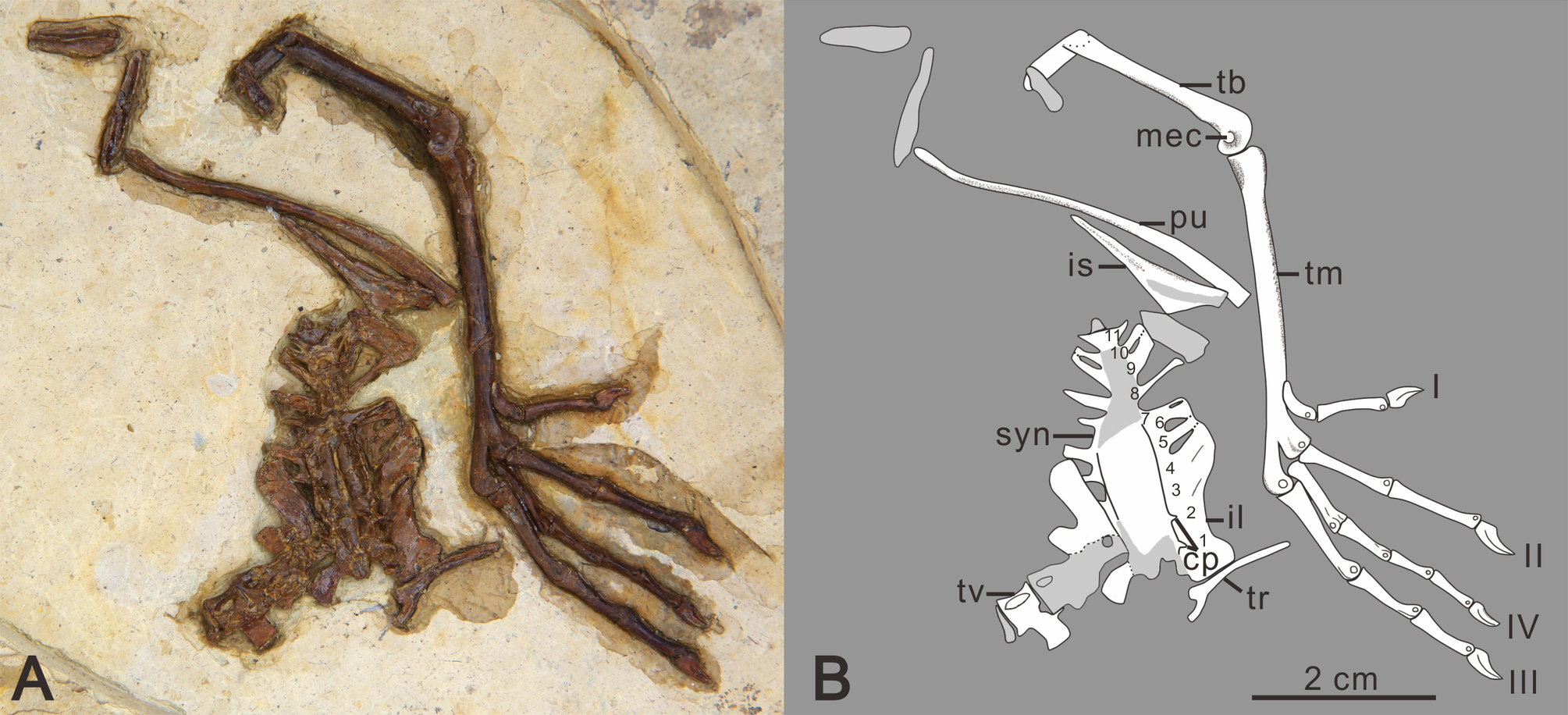 Photograph of Changmaornis houi gen. et sp. nov., GSGM-08-CM-002 (A) and line drawing (B). Abbreviations: cp, costal process; il, ilium; is, ischium; mec, medial epicondyle; pu, pubis; syn, synsacrum; tb, tibiotarsus; tm, tarsometatarsus; tr, thoracic rib; tv, thoracic vertebra; I- IV, pedal digit I- IV. Numbers 1-11 in B indicate the number of the sacral vertebrae.